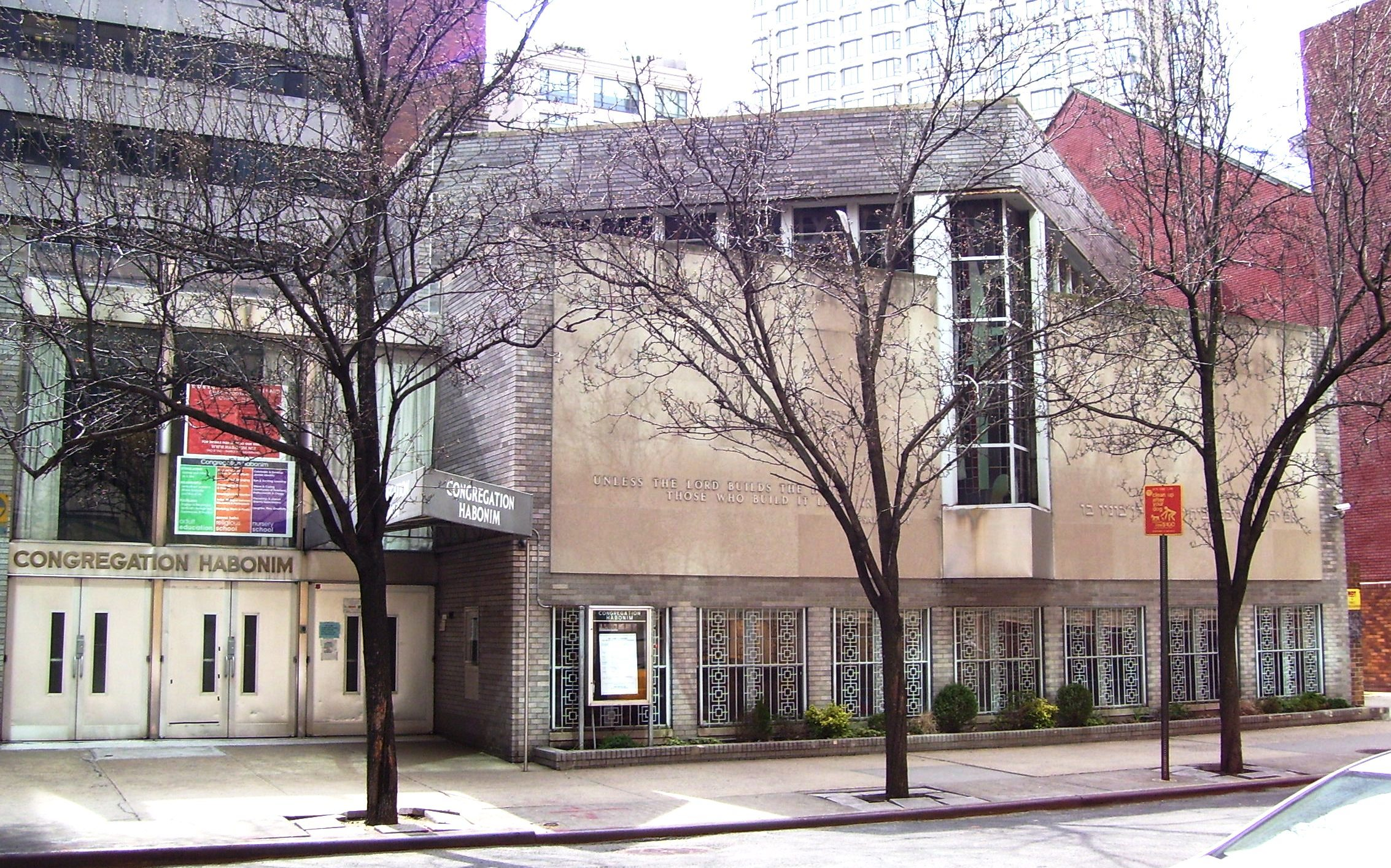 The synagogue of Congregation Habonim ("Builders") at 44 West 66th Street between Central Park West and Columbus Avenue in the Lincoln Square neighborhood of Manhattan, New York City, was built in 1957-7 and designed by Stanley Prowler and Frank Faillance. The congregation was founded in 1939 by German refugees. The building insludes a column capital from the Fasanenstrasse Synagogue of Berlin and a Torah from the Great Synagogue of Essen, both damaged in Kristallnacht. (Source: From Abyssinian to Zion (2004))